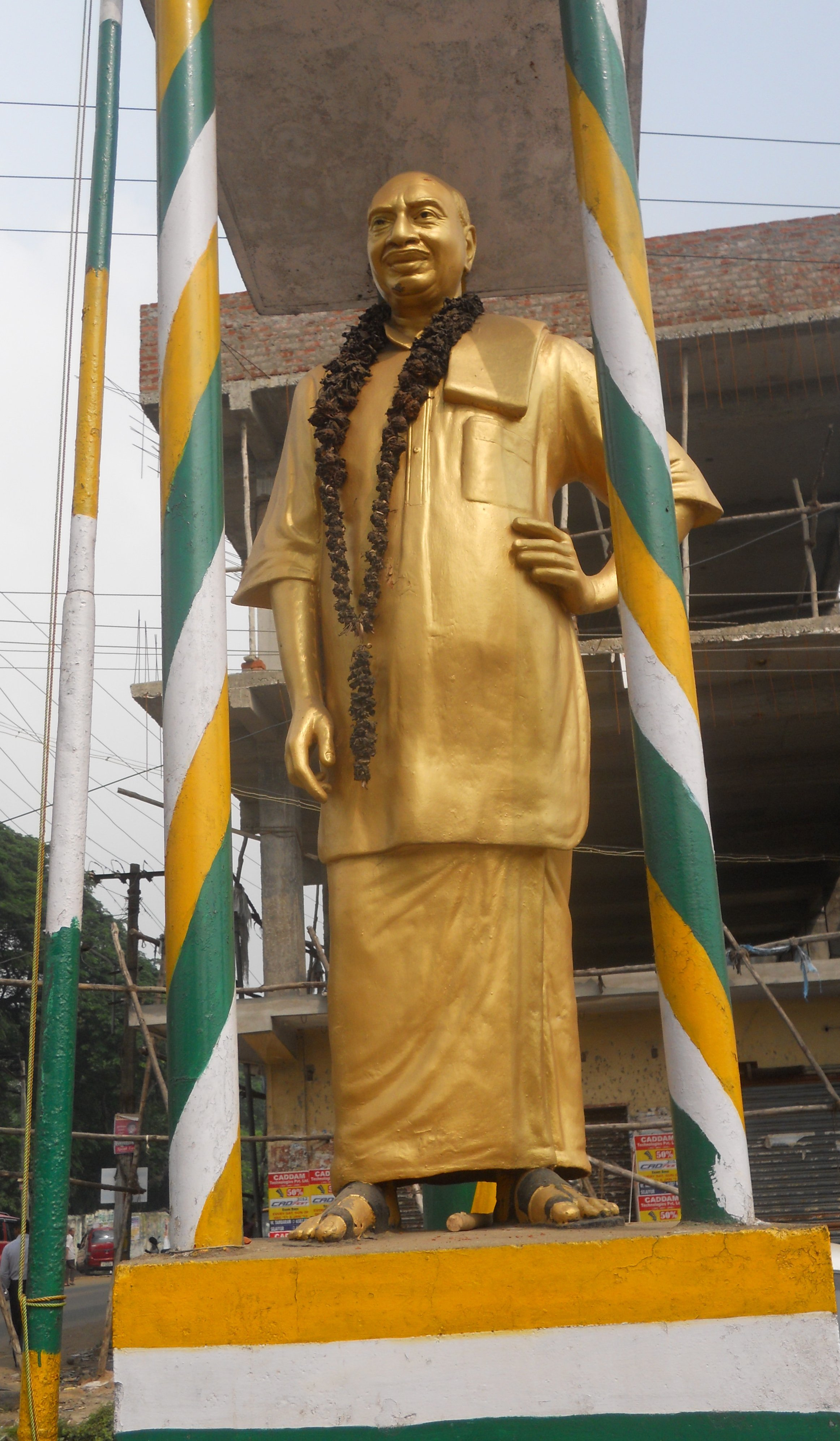 Kamarajar Statue at East Tambaram